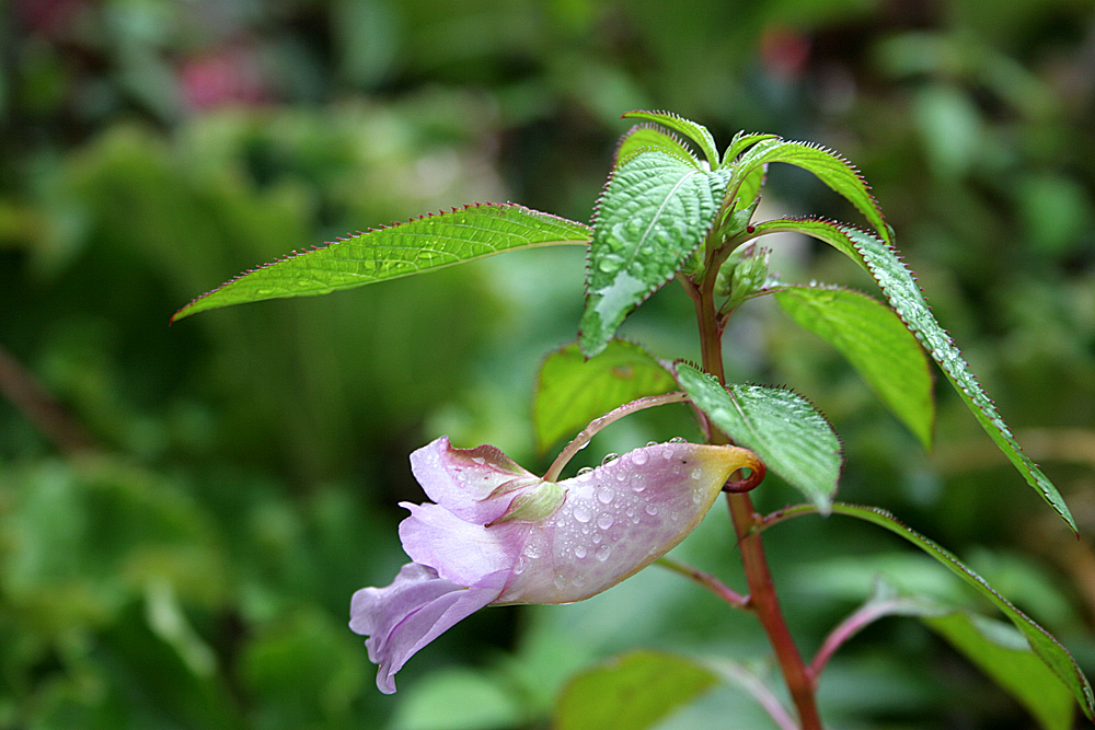 Impatiens arguta Balsaminaceae From Nepal comes this cold hardy perennial Impatiens. To 18” tall and very branching, it bears numerous, 2” long, mid-violet tubular, flaring, flowers from Spring till Fall. It needs to be kept moist at all times to stay looking its best. It is quite hardy and will even survive freezing temperatures.